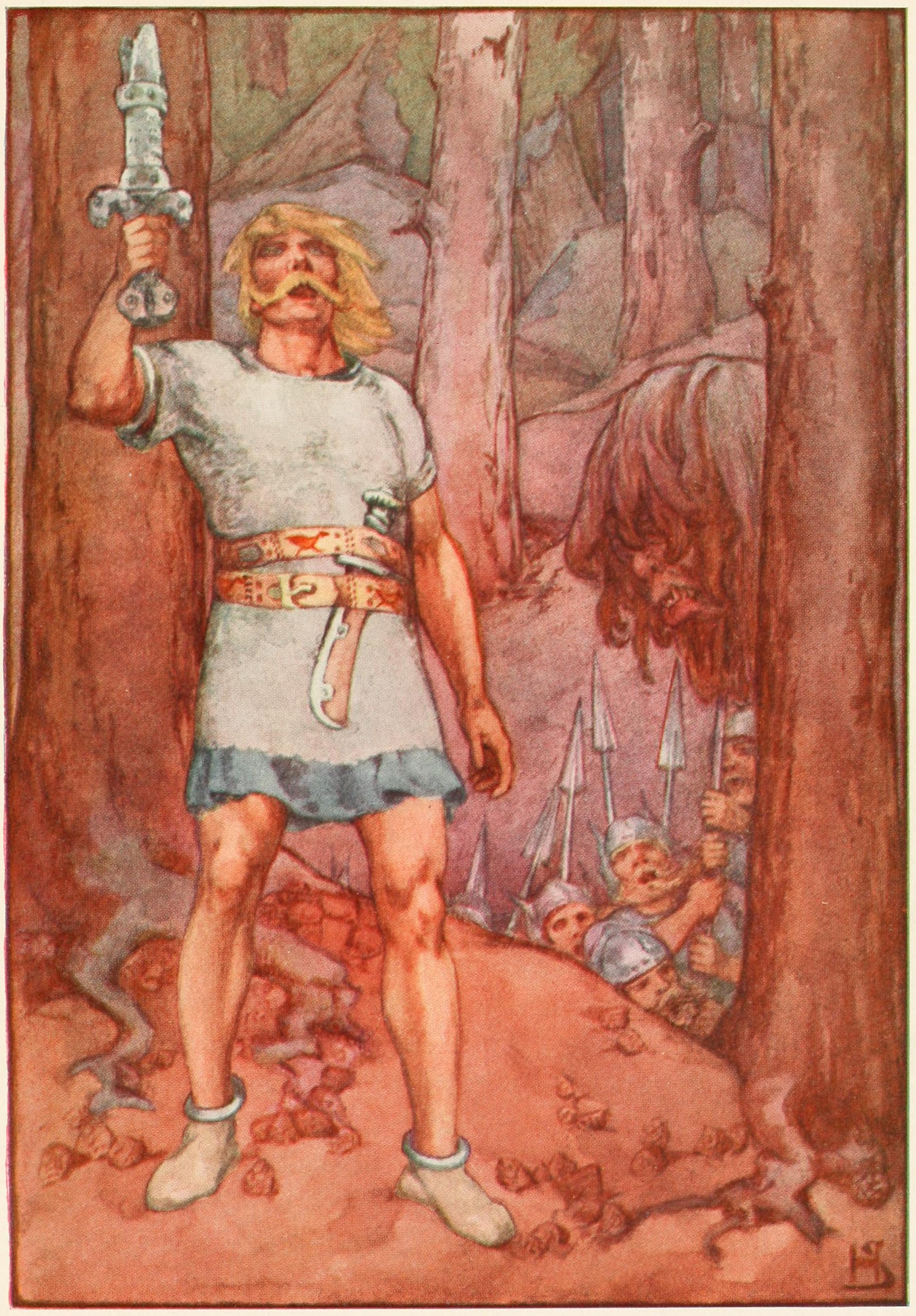 Illustration from a collection of myths.